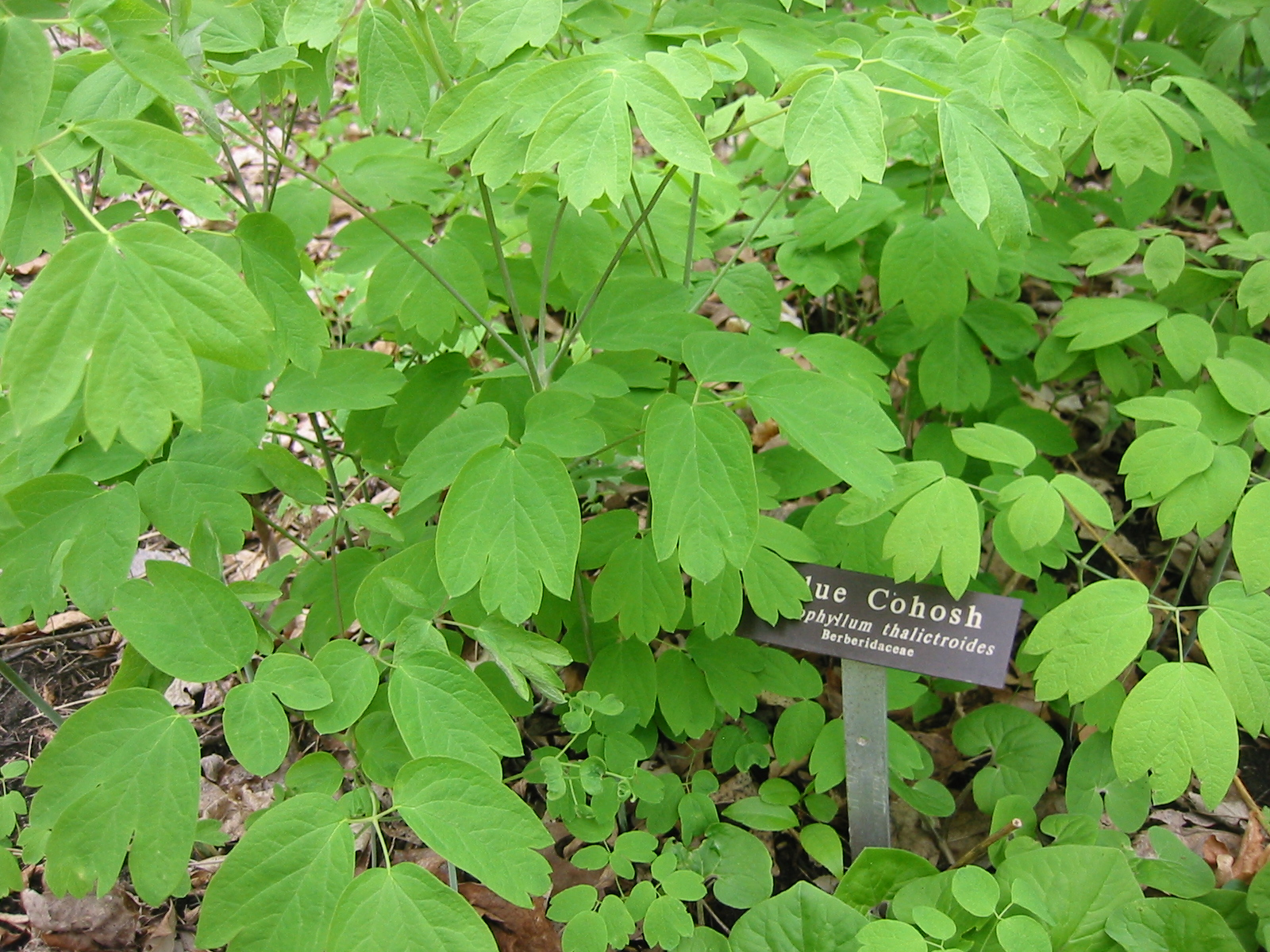 Blue Cohosh found growing on the trails at University of Michigan Matthaei Botanical Gardens.